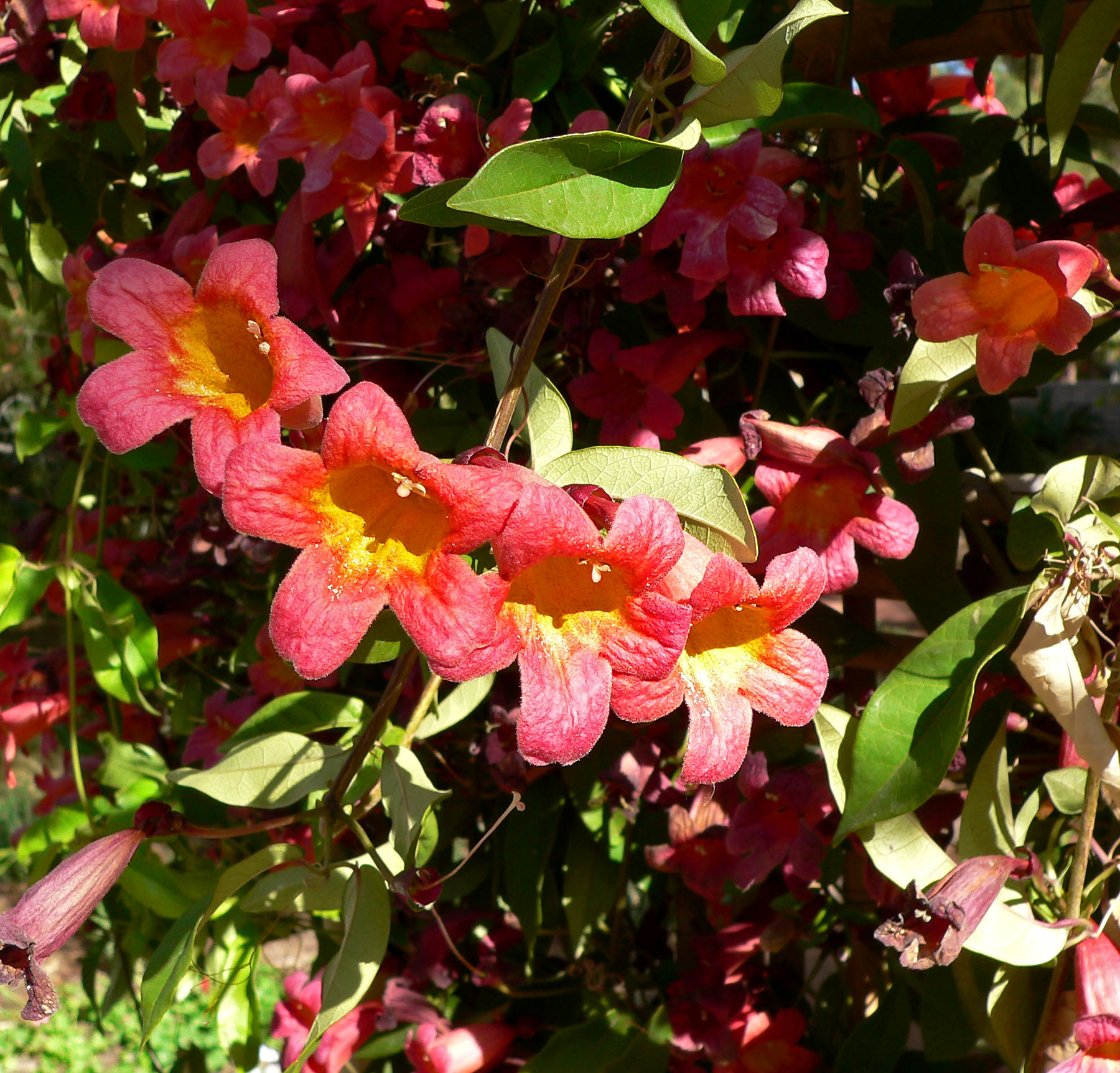 Bignonia capreolata at the Springs Preserve garden, Las Vegas, Nevada